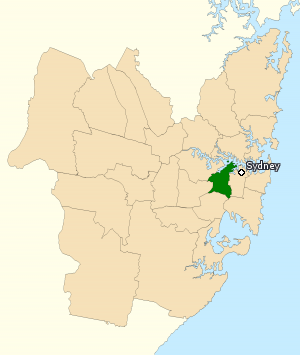 Incorporates or developed using Administrative Boundaries ©PSMA Australia Limited licensed by the Commonwealth of Australia under Creative Commons Attribution 4.0 International licence (CC BY 4.0). Derived from State and Territory Boundaries from the Australian Bureau of Statistics under Creative Commons Attribution 2.5 Australia license (CC BY 2.5 AU)